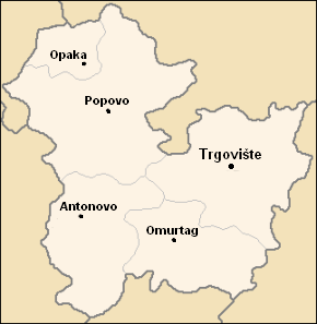 Croatian names on map of Targovishte District (Bulgaria)